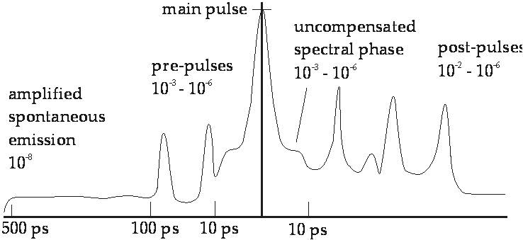 Pulse characteristics of high intensity lasers